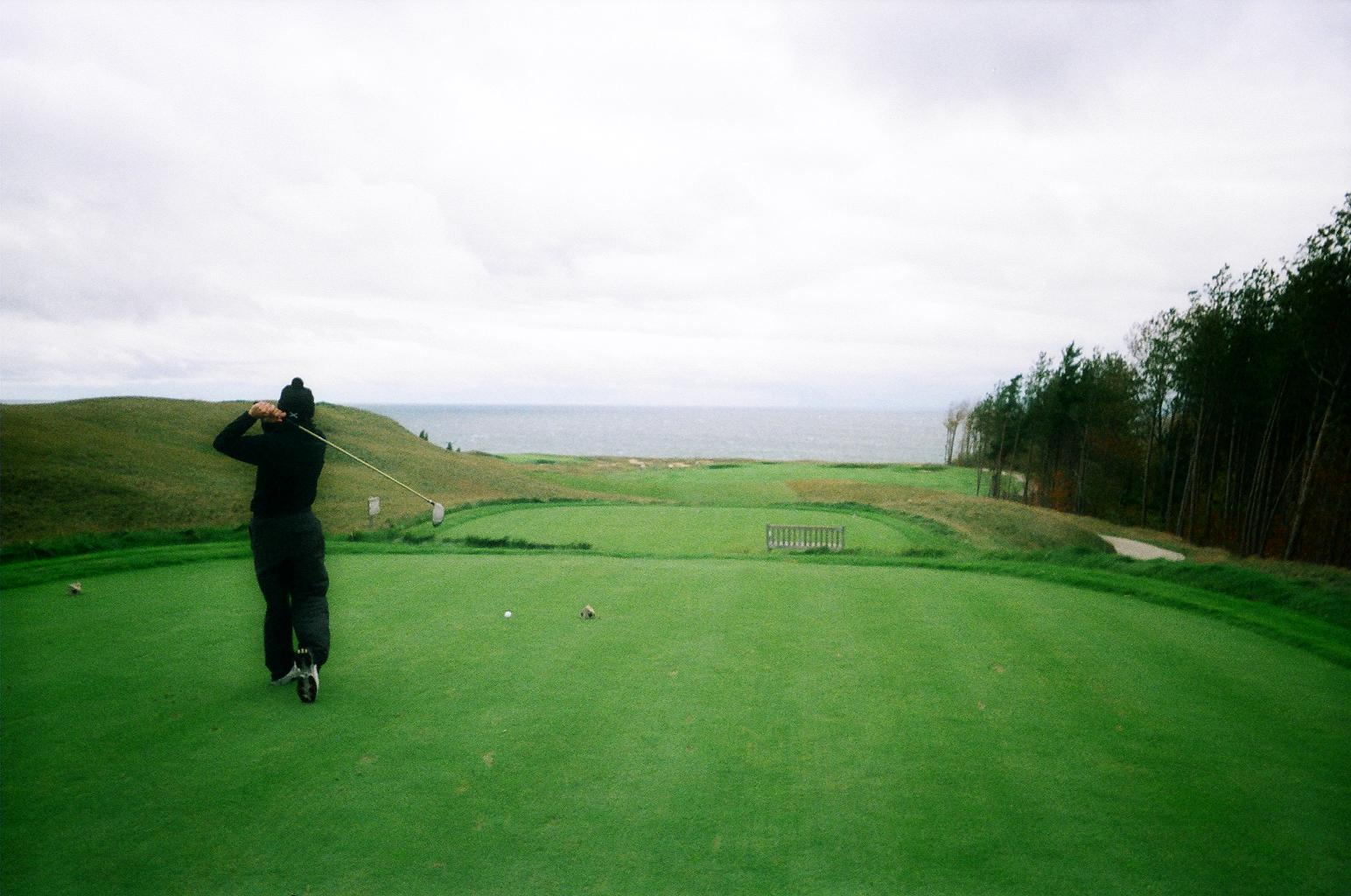 golfer hitting a tee shot on #5 at arcadia bluffs